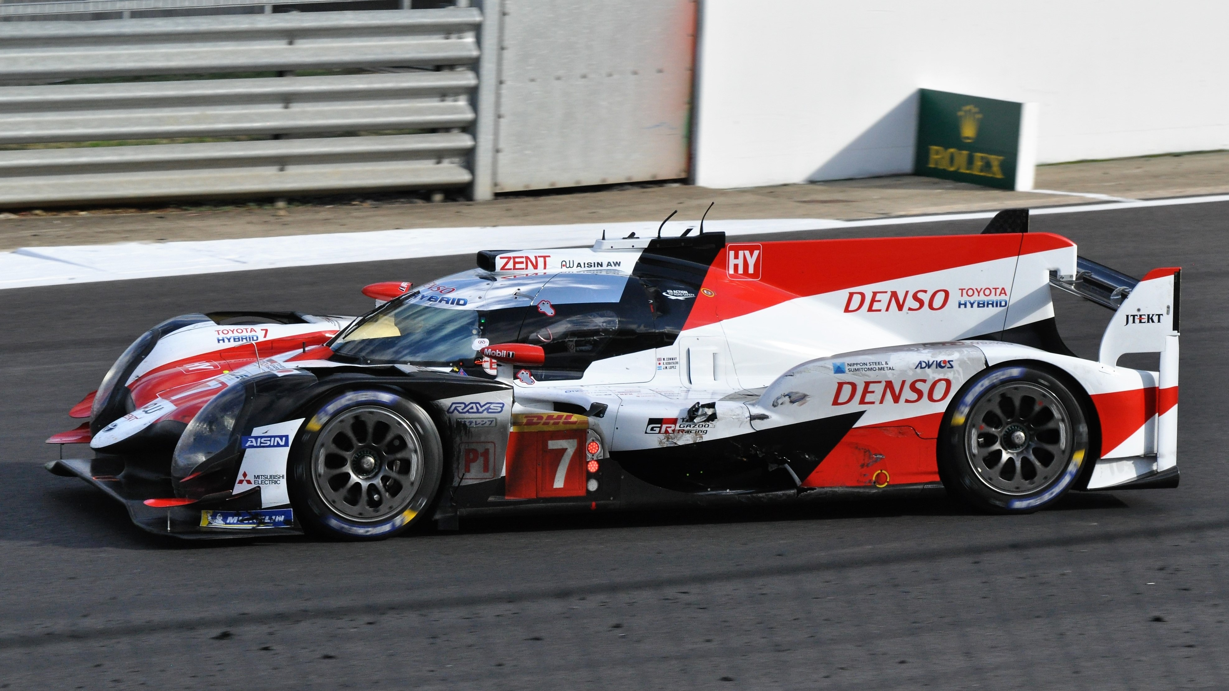 Japanese driver Kamui Kobayashi flicks his Toyota TS050 car into Abbey corner, during the 2018 6 Hours of Silverstone race. Kobayashi and his co-drivers, Mike Conway and José María López, eventually finished in second place but were subsequently disqualified as their car infringed the technical regulations.